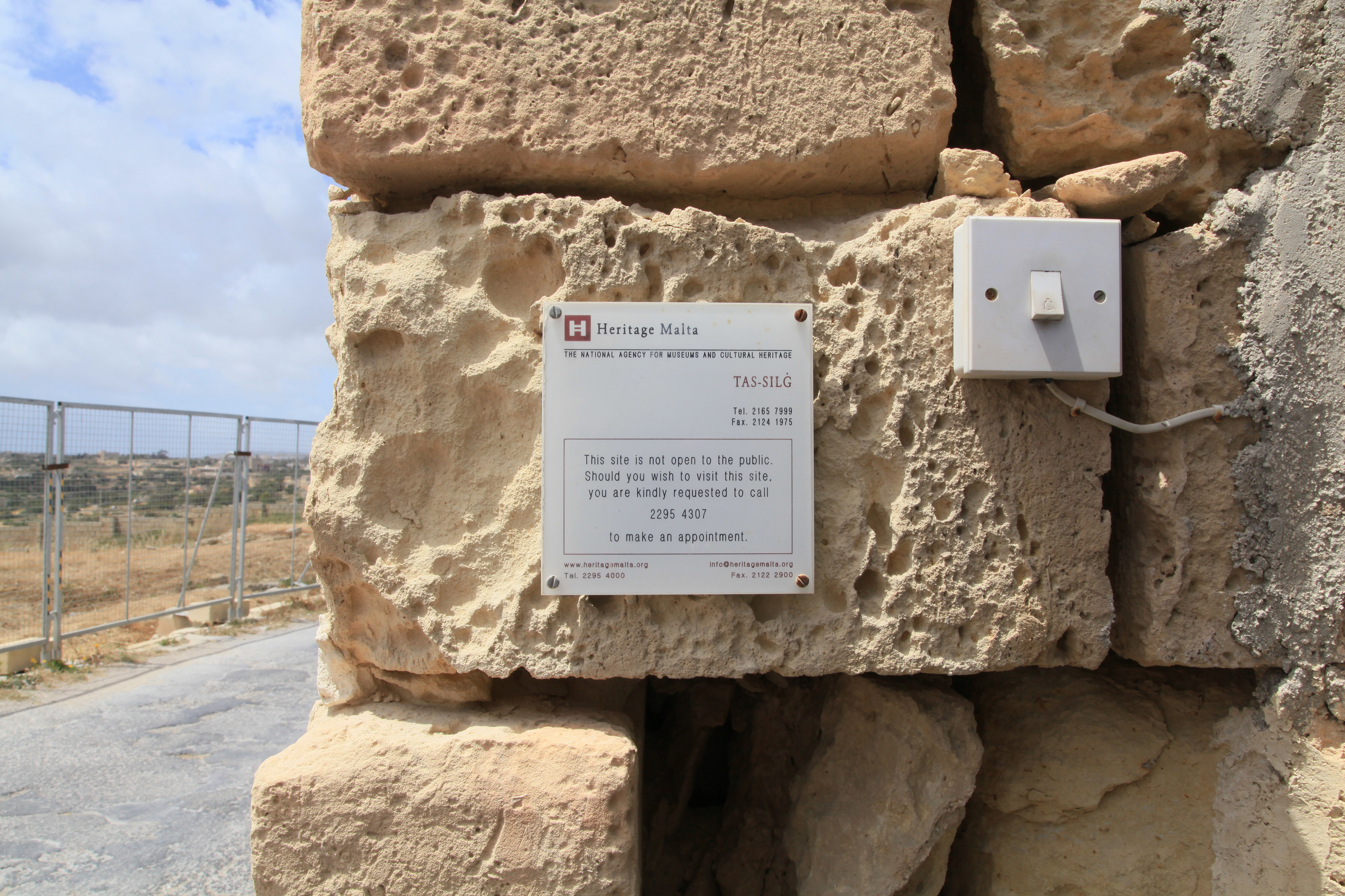 Tas-Silġ Temples, Triq Xrobb l-Għaġin in Marsaxlokk, Malta